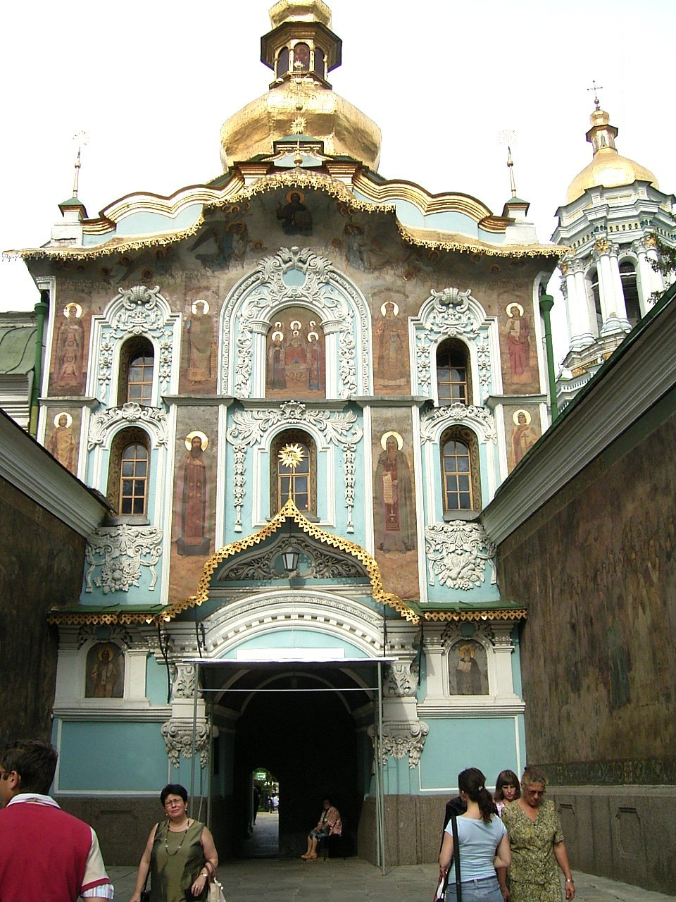 Description: Entrance Church, Kiev-Pechersk Lavra Author: Alexander Noskin Date: 8-16-2005